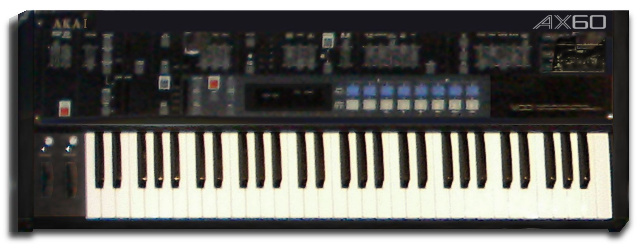 AKAI AX60 (1986) Shawn Rudiman's Studio, Pittsburgh, PA